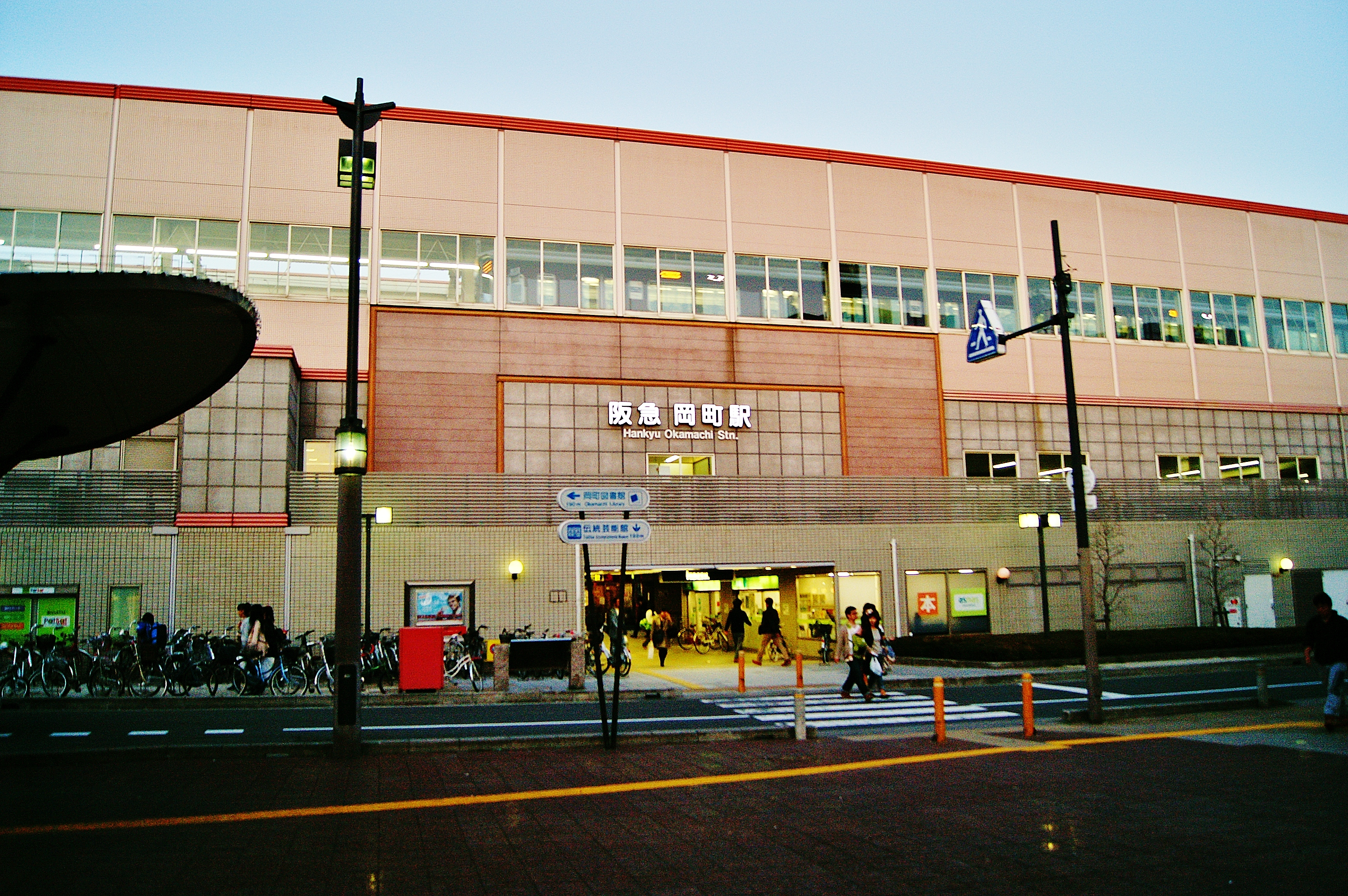 Okamachi station in Toyonaka, north exit